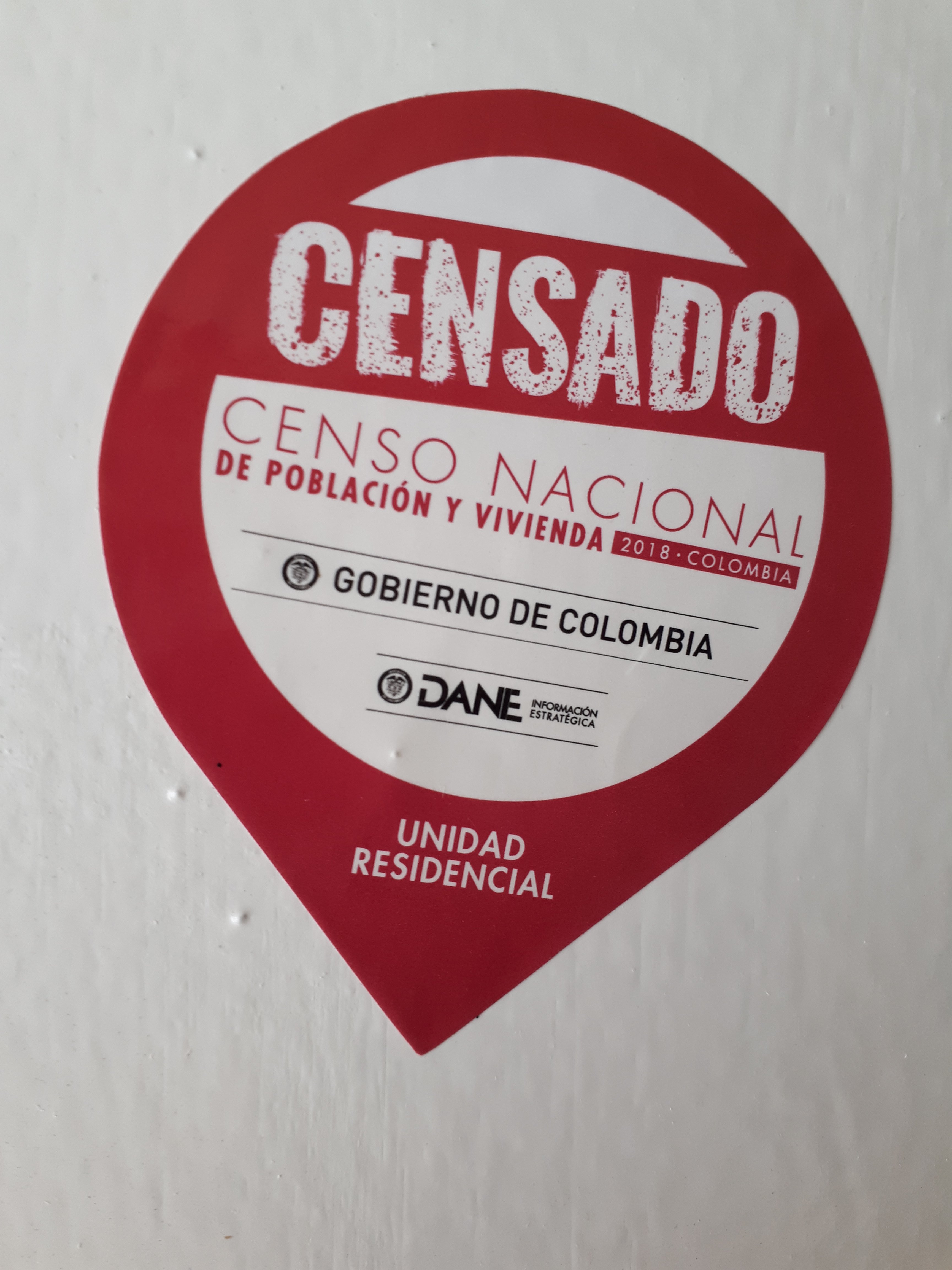 Colombian census 2018 stickers for the house doors.